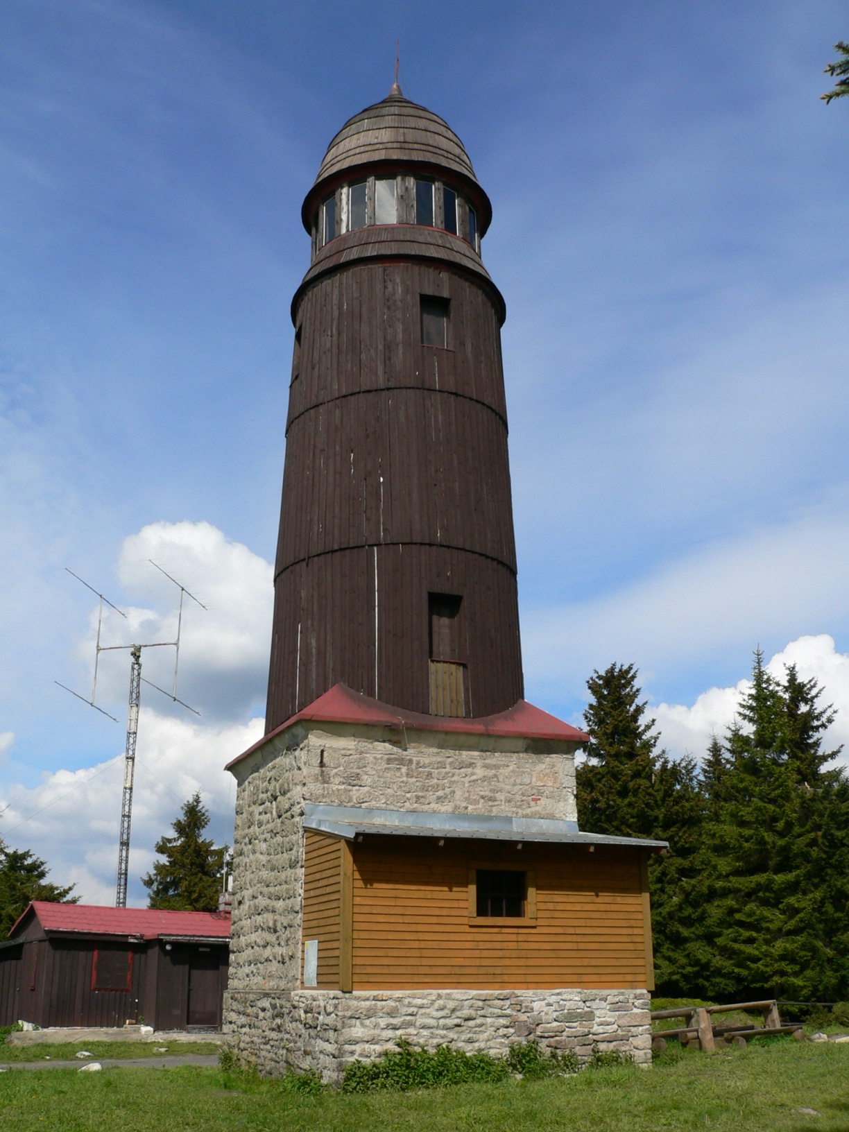 Lookout tower on Blatenský vrch (Plattenberg, 1 043 m) in Ore Mountains, Czech Republic.